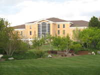 The Gordon B. Hinckley Building at BYU-Idaho Taken in May 2007